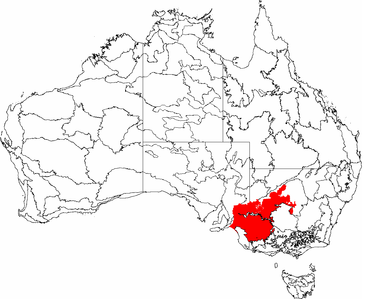 This is a map of the Interim Biogeographic Regionalisation of Australia (IBRA), with state boundaries overlaid. The Murray Darling Depression region is shown in red.